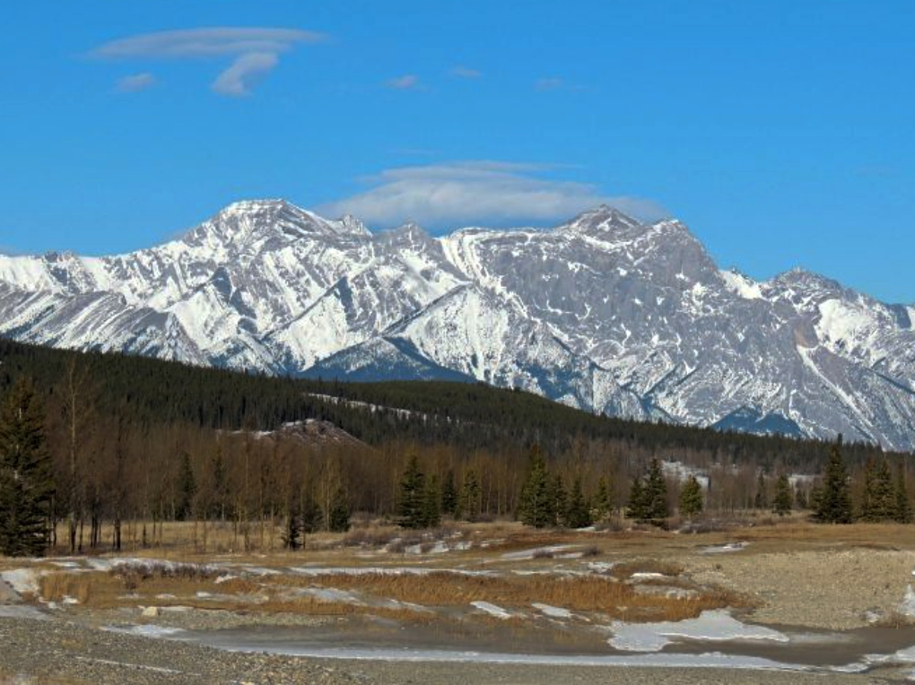 Allstones Peak and Abraham Mountain in Alberta seen from Highway 11